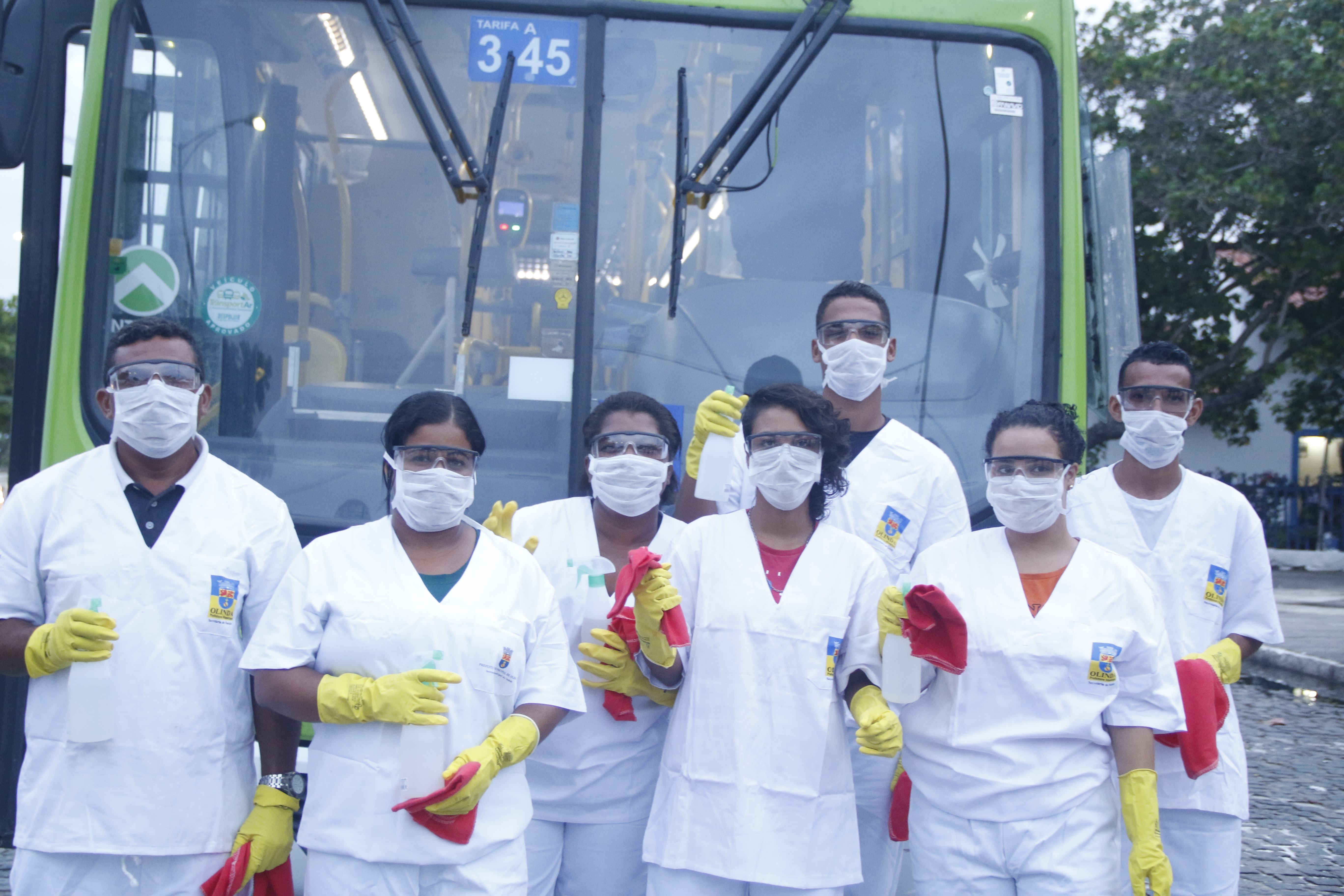 Os profissionais irão atuar no horário de 06h às 22h, nos terminais de Rio Doce e Xambá - Foto: Sandro Barros / PMO